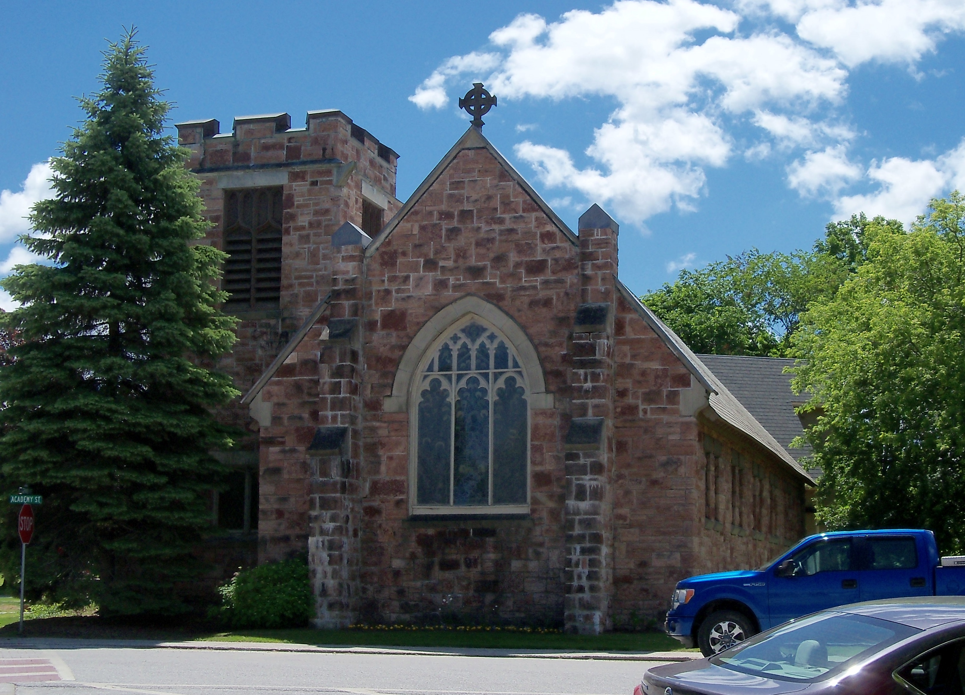 Holy Trinity Episcopal Church in Swanton, Vermont, USA.